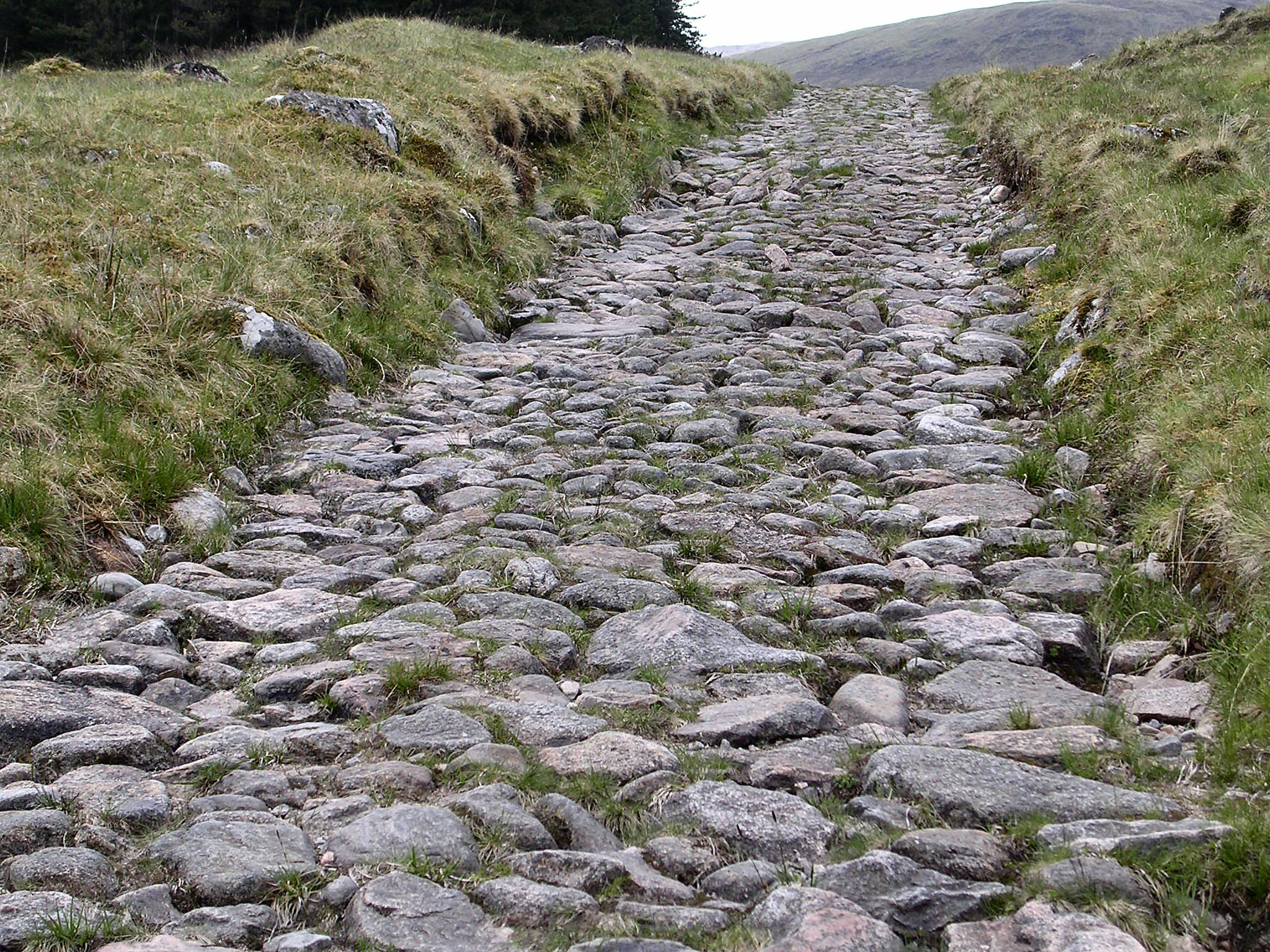 Photograph of a well-preserved section of General Wade's Military Road (Scheduled Ancient Monument) near Melgarve below Corrieyairack Pass. Looking west up towards the hills of Corrieyairack Forest (not wooded).